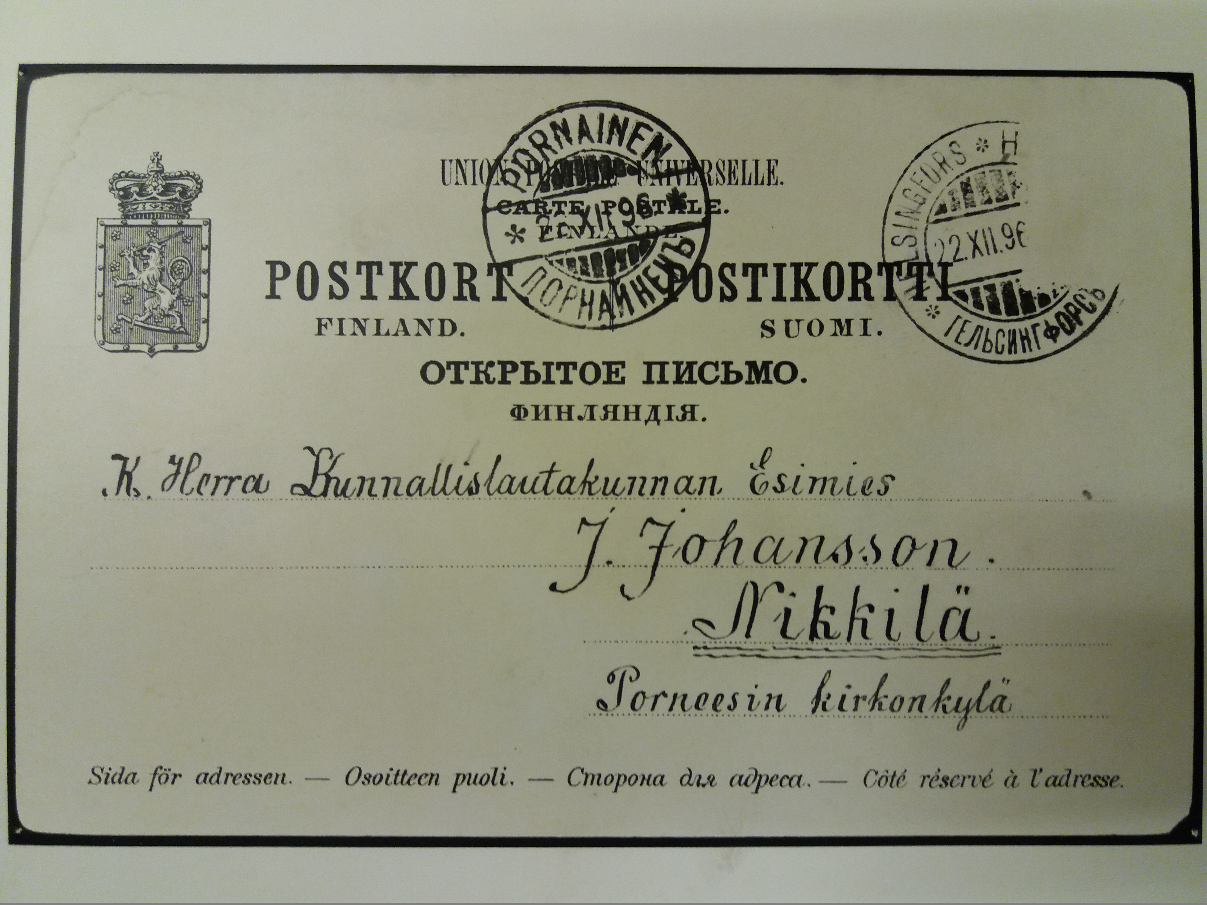 Pornainen Museum letter from an exhibition